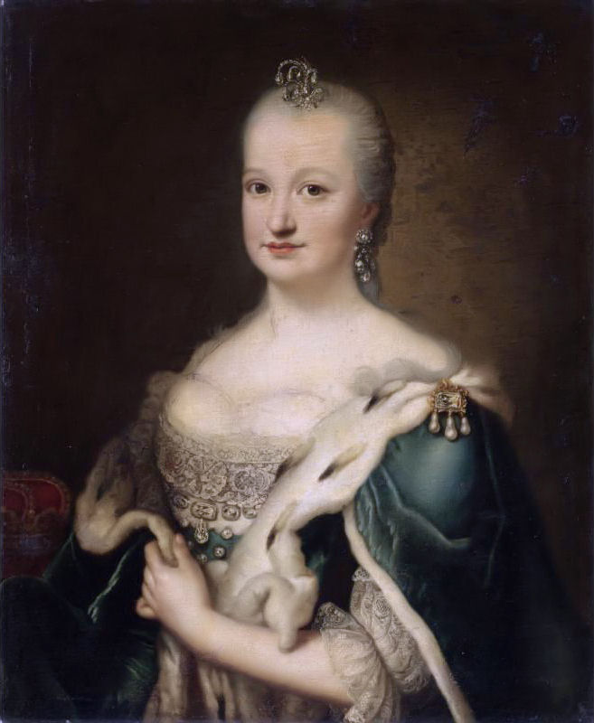 Portrait of Countess Palatine Elisabeth Auguste of Sulzbach (1721-1794), misidentified with Mariana Victoria of Spain (1718-1781) and her sister Infanta Maria Teresa Rafaela of Spain (1726-1746).